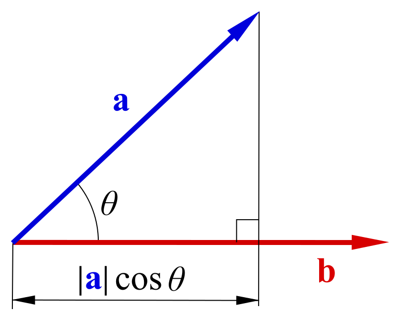 Scalar dot product